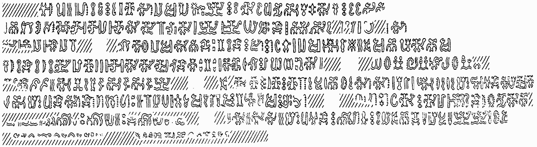 Barthel's tracing of rongorongo tablet S, side a